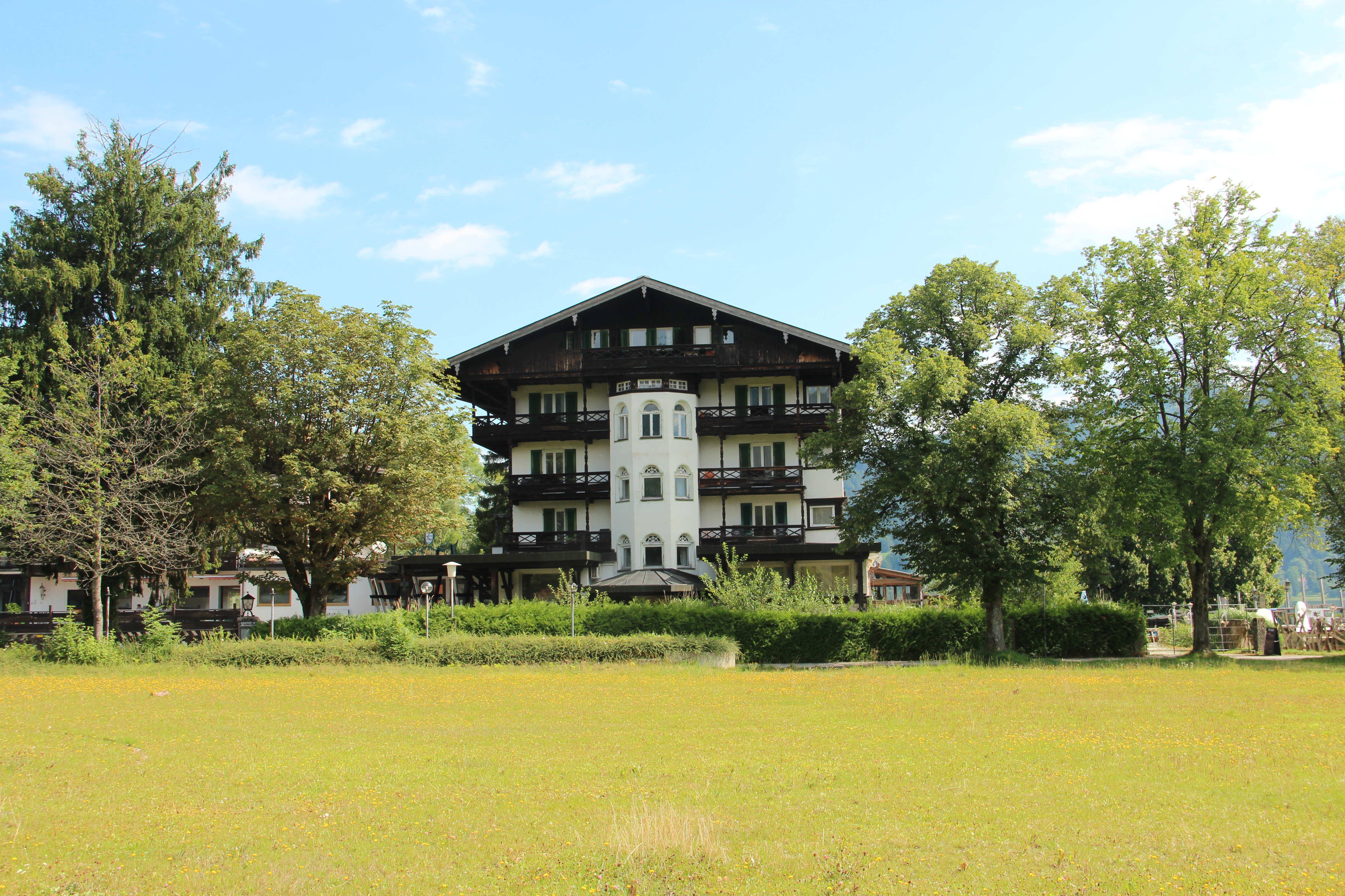 Hotel Lederer am See (former Kurheim Hanselbauer) in Bad Wiessee. Place of the Night of the Long Knives shortly before its planned demolition in 2017.